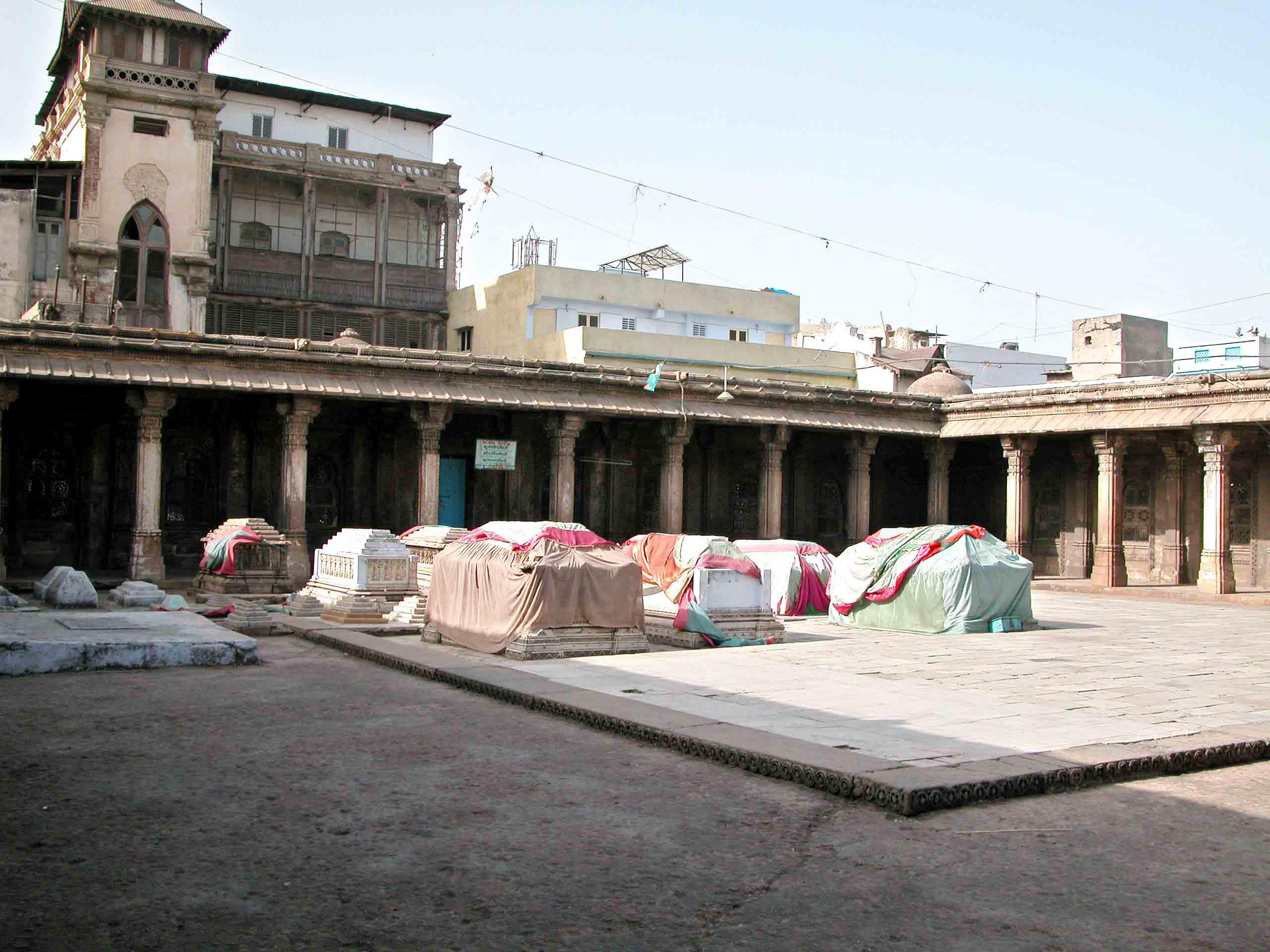 Tombs of Queens of Ahmed Shah (Rani Ka Ghar)